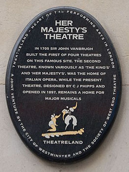 Photo of plaque placed by The Society of London Theatre commemorating Her Majesty's Theatre in London. Photo taken by Kevin B. Thompson, 2008. SWET - Her Majesty's Theatre.